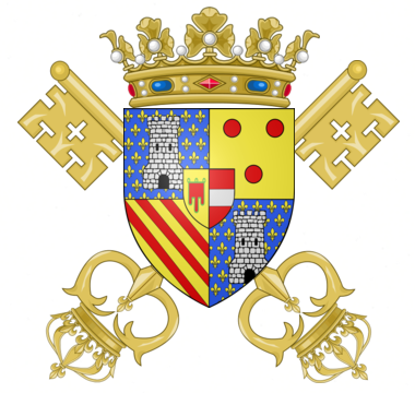 Coat of arms of Charles Godefroy de La Tour d'Auvergne as Grand Chamberlain of France Armoiries de Charles Godefroy de La Tour d'Auvergne en tant que Grand Chambellan de France